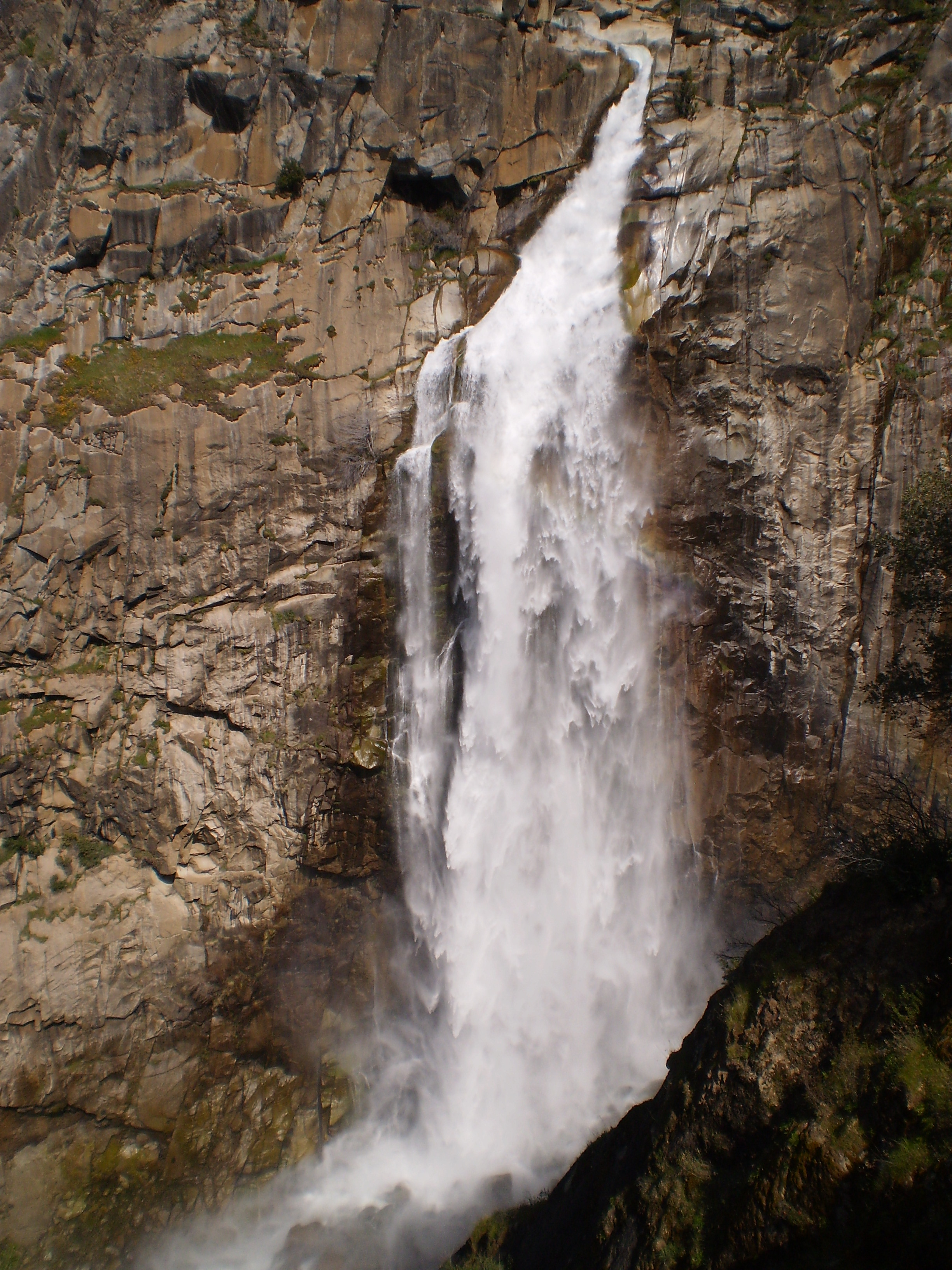 Depicted place: Feather Falls